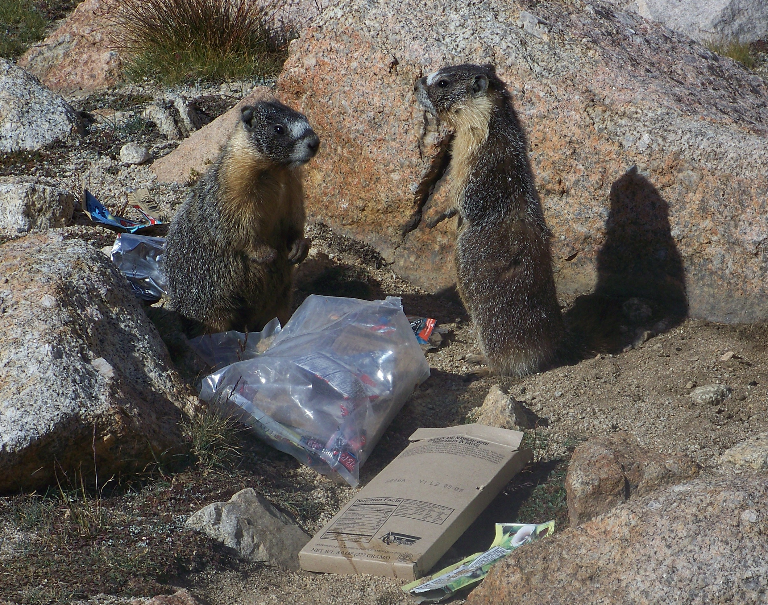 Marmots eating trash left by a backpacker at Trail Camp near Mount Whitney. Species is identified as Marmota flaviventris, or the Yellow-bellied Marmot.